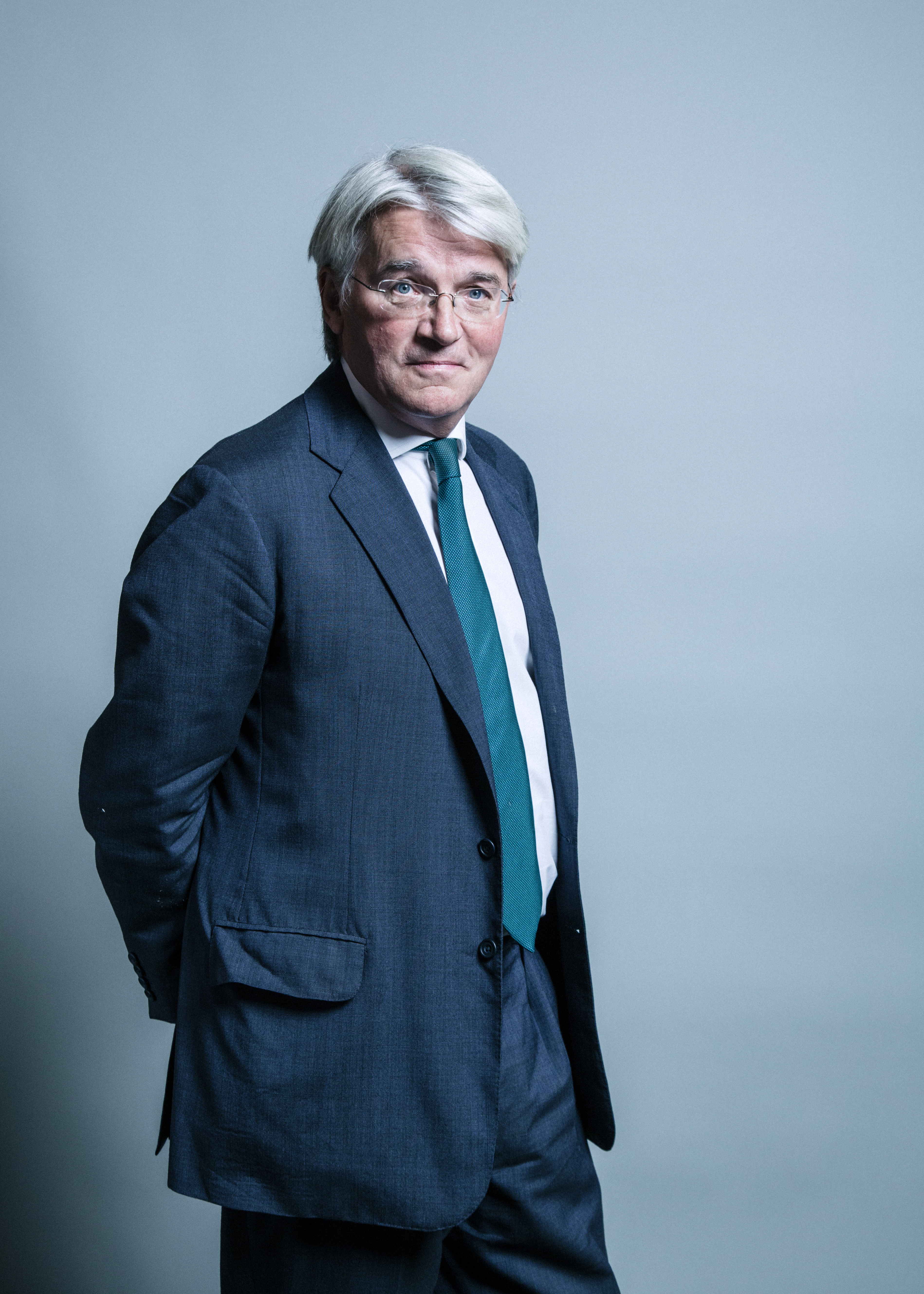 Official portrait of Mr Andrew Mitchell